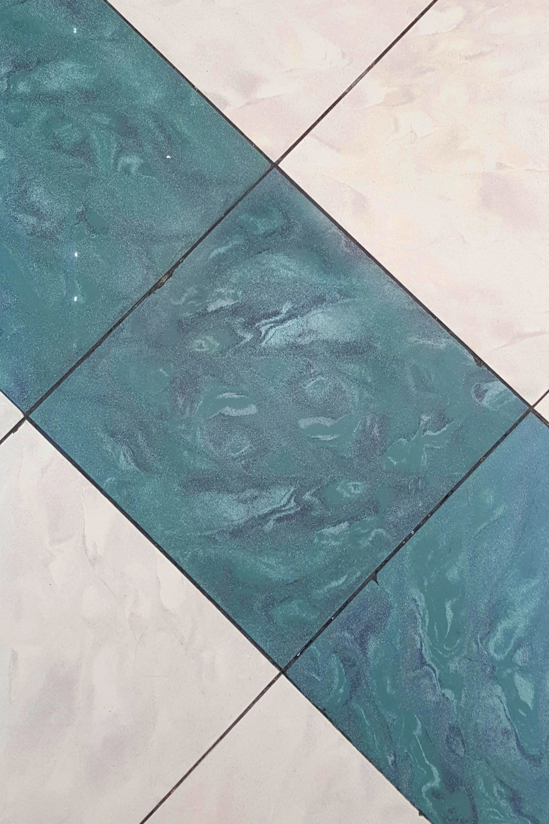 Feature floor of Kai Tin Shopping Centre in Lam Tin, Hong Kong